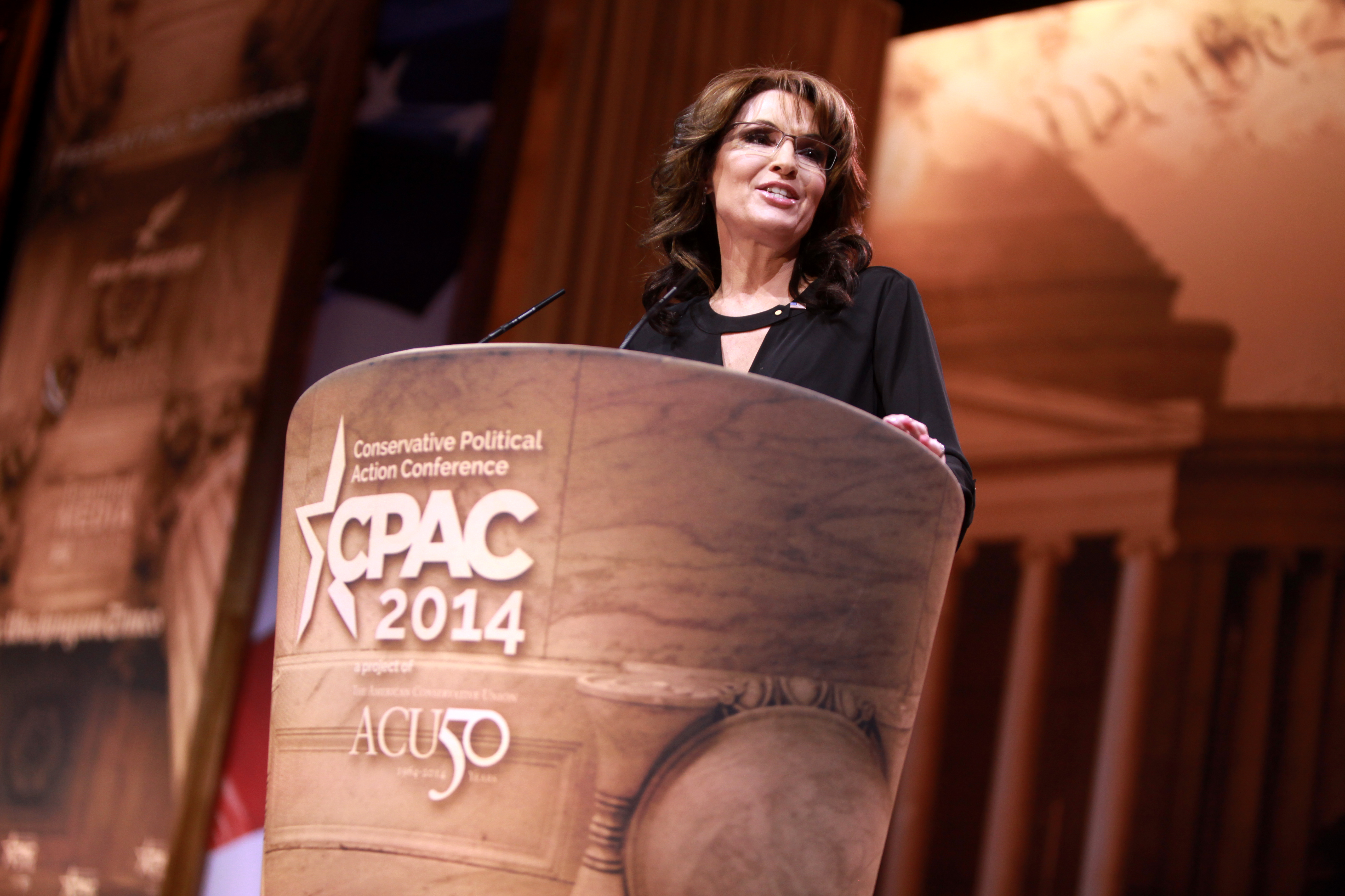 Sarah Palin speaking at CPAC 2014 in Washington, DC.